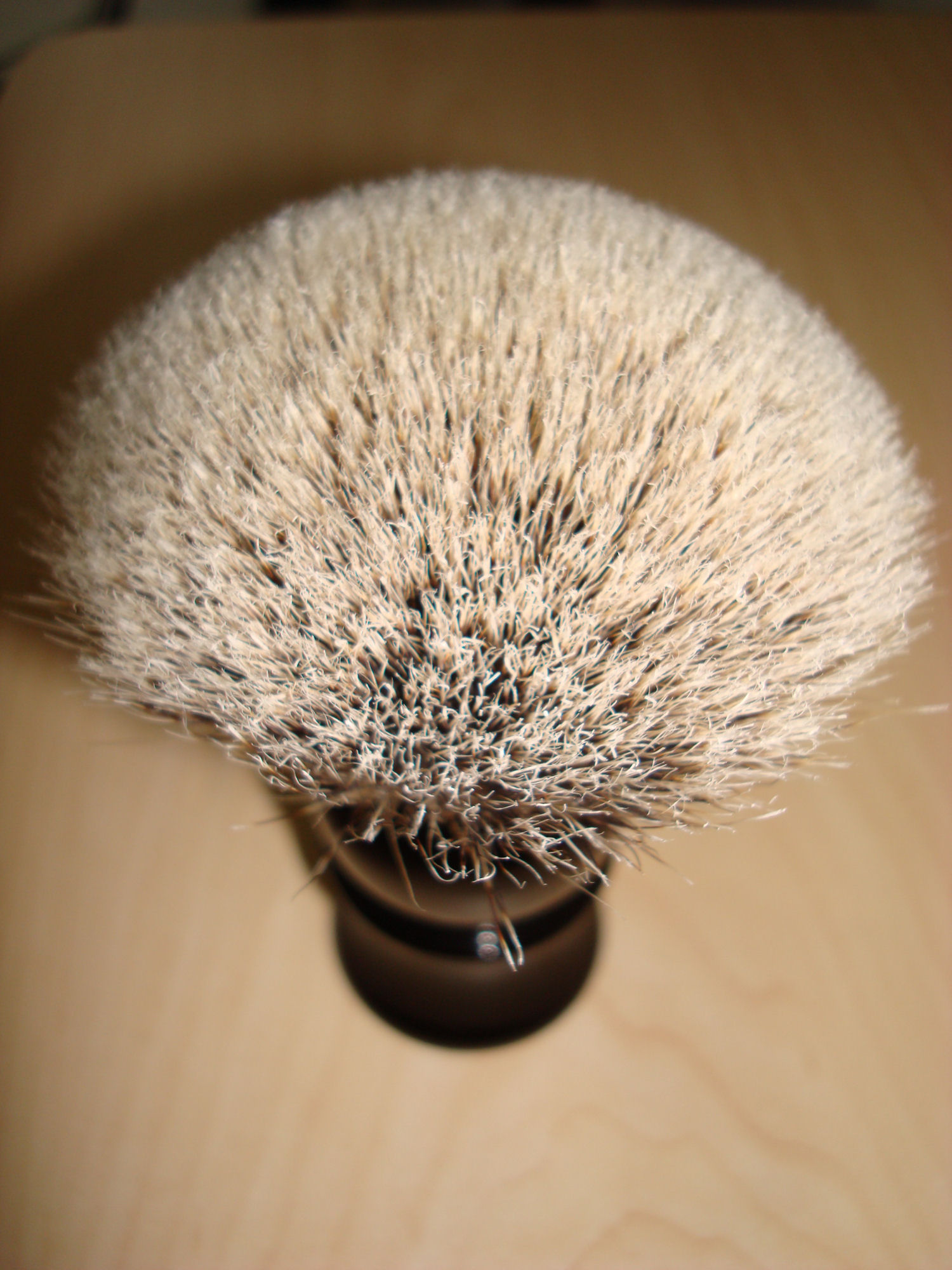 Silvertip shaving brush